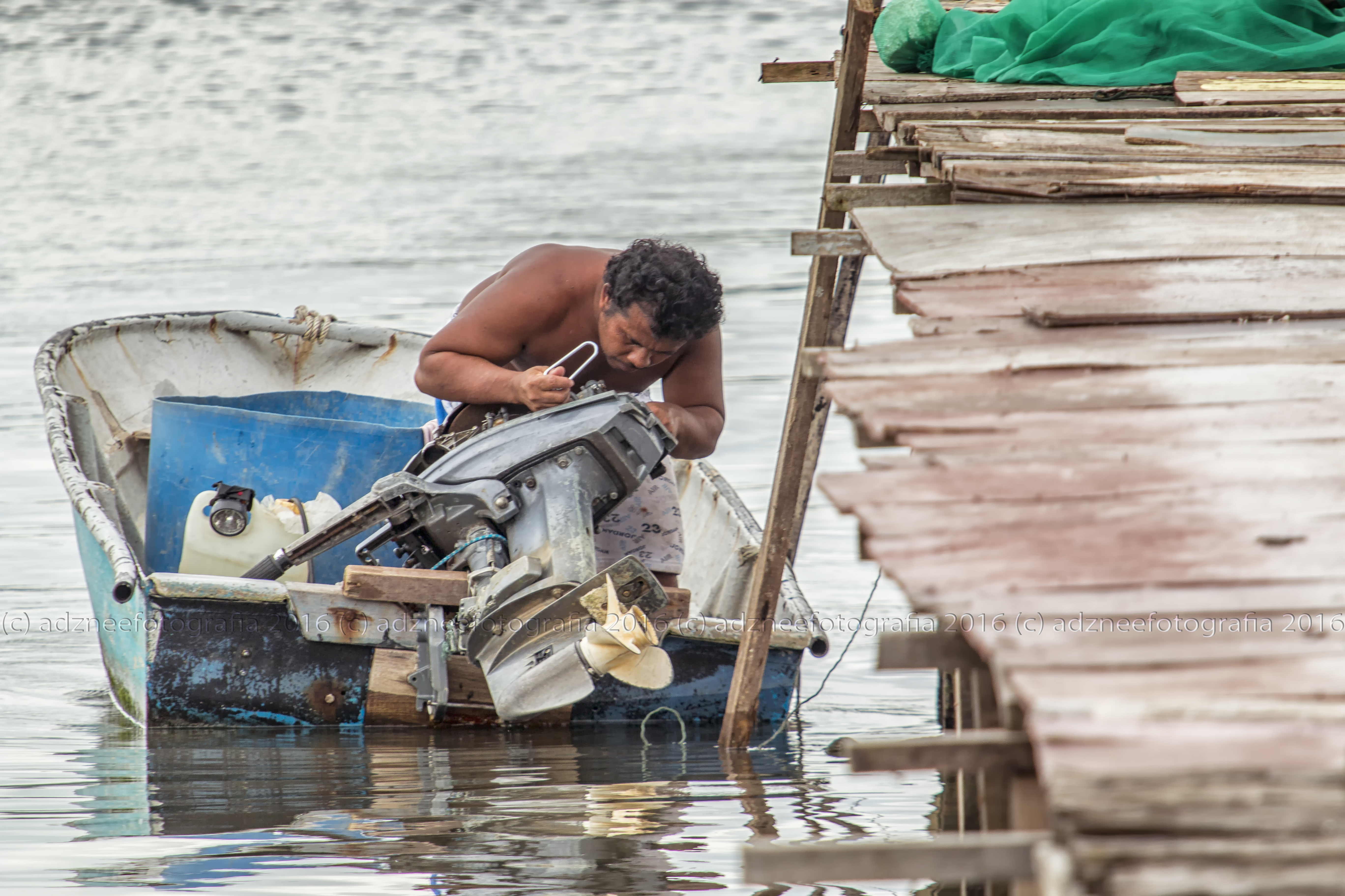 The Orang Seletar are one of the nineteen Orang Asli people groups living in Peninsular Malaysia. The Malaysian government classifies them under the Aboriginal Malay (officially called Proto-Malay) subgroup. Nearly half of the Orang Seletar ethnic group of 1,700, also live in northern Singapore. They are a maritime people, the descendants of the Orang Laut or sea people who constituted the original navy of the Malaccan Sultanate and played a pivotal role in the region's history. Originally from the Spice Islands in Indonesia, five hundred years ago they roamed the Straits of Malacca in bands, raiding, burning, and pillaging. They were the old pirates of South East Asia. The Orang Seletar have settled down in the states of Johor and Selangor. They no longer live in boats but in huts built on water. In some places, they live in houses built on land.